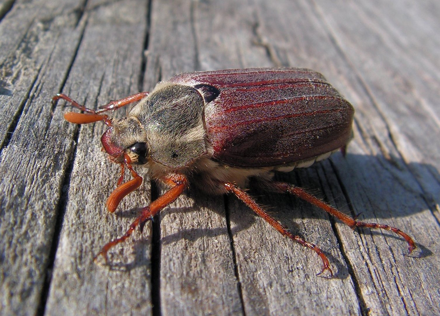 Cockchafer